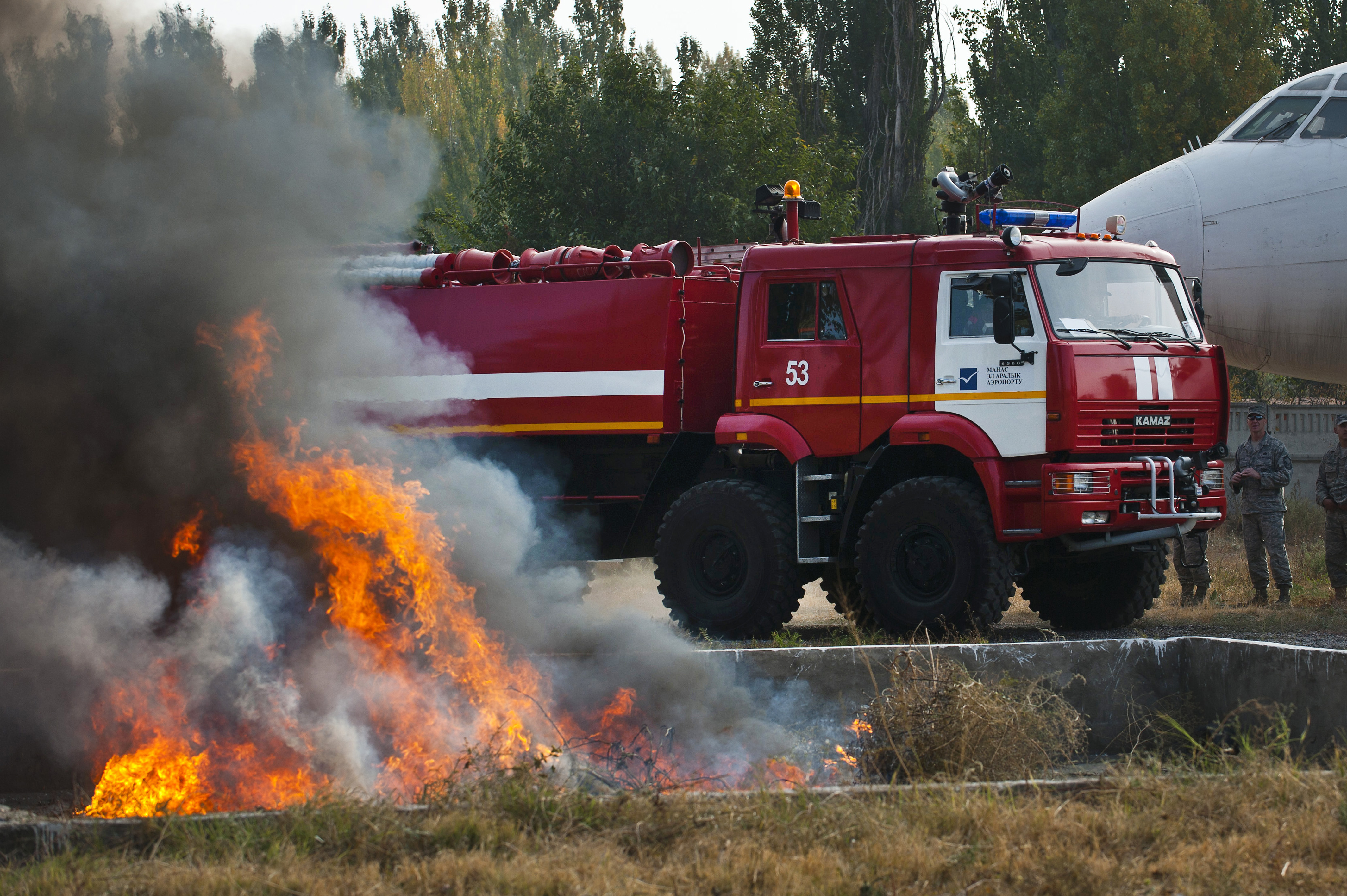 A Manas International Airport firetruck conducts a simulated response to a controlled fire during a demonstration at the Transit Center at Manas, Kyrgyzstan, Oct. 16, 2012. Firefighters of MIA provided a capabilities demonstration to 376th Expeditionary Civil Engineer Squadron firefighters assigned to the Transit Center.